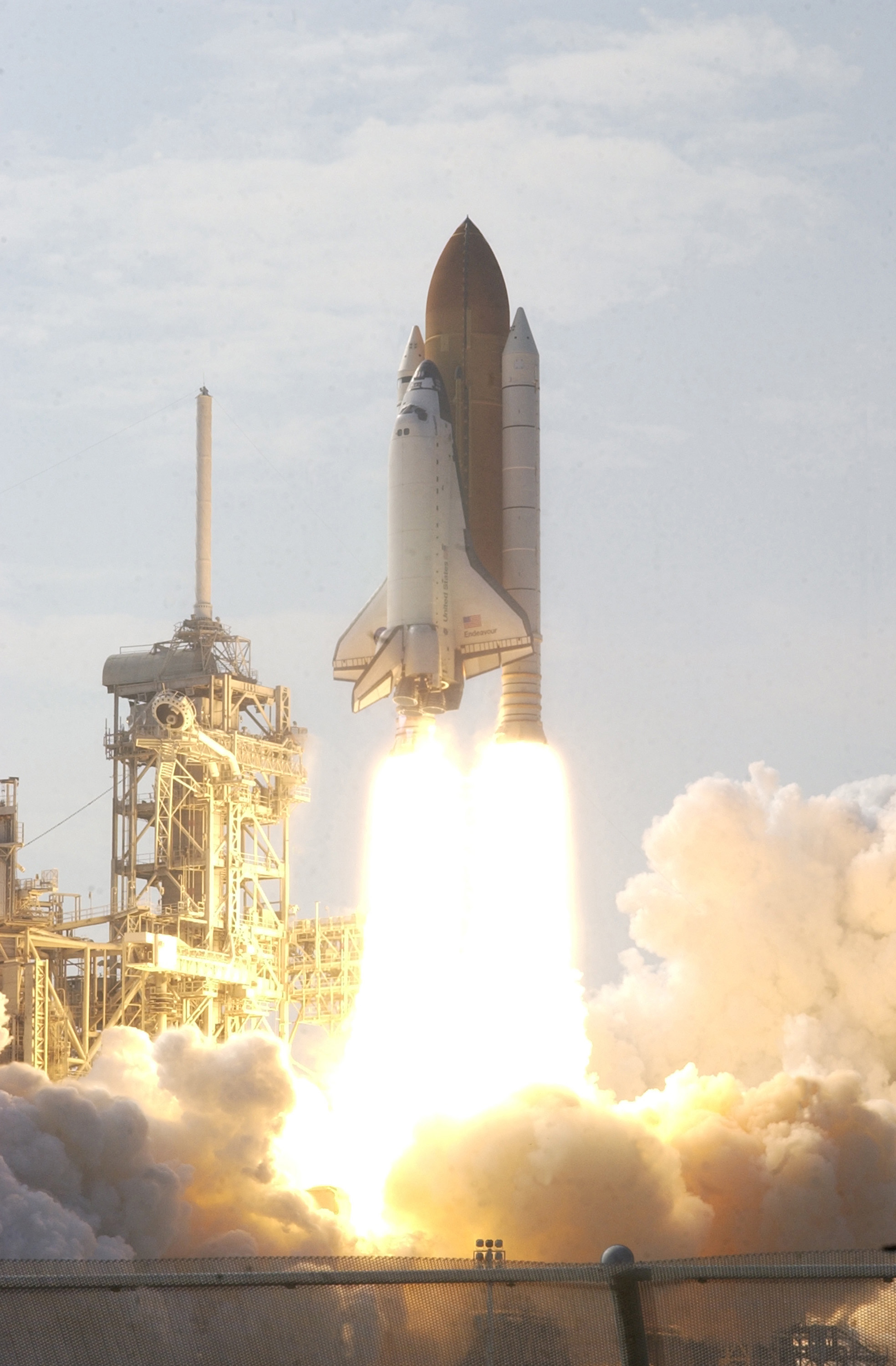 Space Shuttle Endeavour erupts from billows of smoke and steam as it hurtles into space on mission STS-111 to the International Space Station. Liftoff occurred at 5:22:49 p.m. EDT. The STS-111 crew includes Commander Kenneth Cockrell, Pilot Paul Lockhart, and Mission Specialists Franklin Chang-Diaz and Philippe Perrin (CNES), as well as the Expedition Five crew members Valeri Korzun, Peggy Whitson and Sergei Treschev. This mission marks the 14th Shuttle flight to the International Space Station and the third Shuttle mission this year. Mission STS-111 is the 18th flight of Endeavour and the 110th flight overall in NASA's Space Shuttle program.